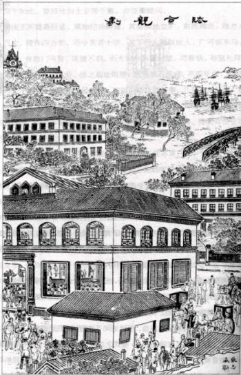 Drawing of Paris in Wang Tao's 19th century Europe travelog